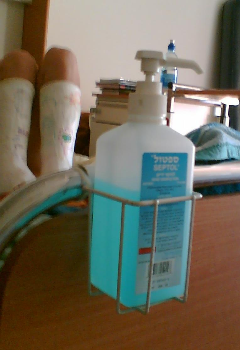 Disinfection liquid attached to hospital bed. Septol, with Hebrew label.